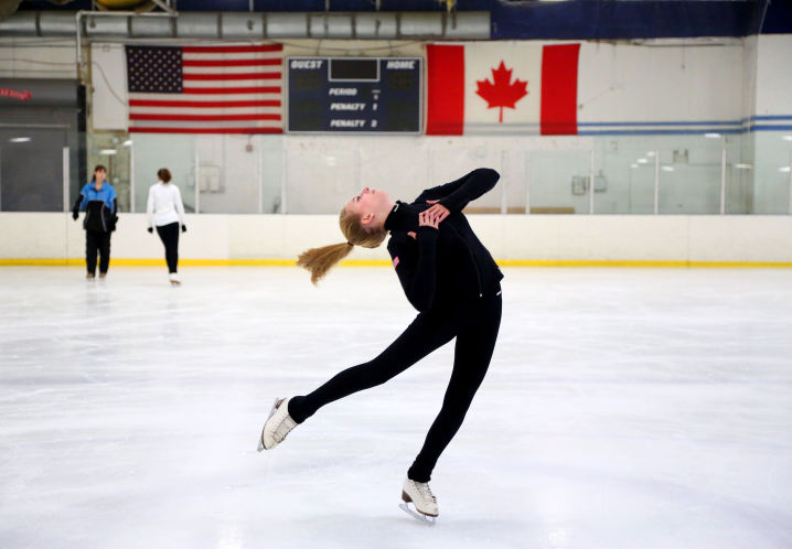 Artistic skater @ Clearwater Ice Arena